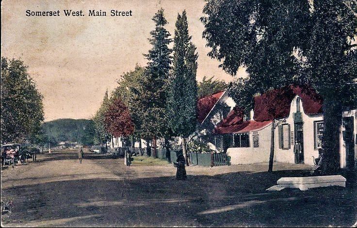 Postcard depicting a coloured photograph of Main Street, Somerset West in 1909.